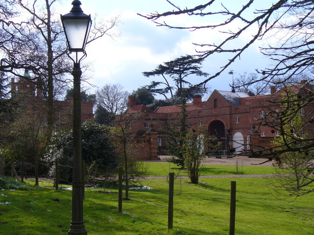 Ockham Park 15th century tower and great house set in parkland. Seen from the Ockham churchyard.